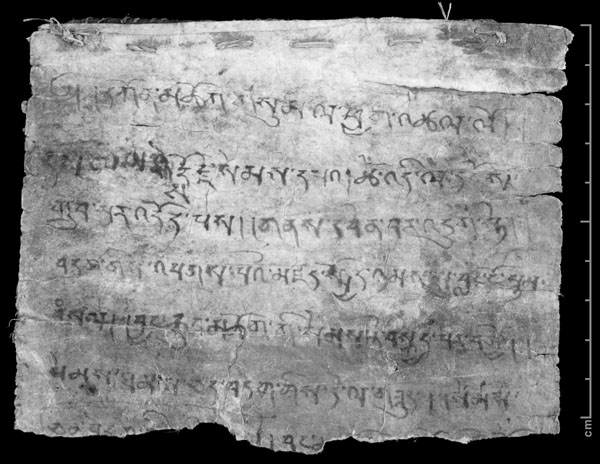 This manuscript (Or.8210/S.12243) from Dunhuang is about Buddhist criticism on Bon funeral rituals. The translation from Sam van Schaik is “…When eradicating (rjes bcad) and diagnosing (dpyad), interment (mdad) and entombment (shid) are performed according to the Bon religion. When we examine the texts, [it is clear that] previously in Tibet interment was performed according to the Bon religion. After some time had elapsed, the [corpse] was entombed. The instructions for the medical treatment (sman) and beautification (legs par ‘gyur) of the corpse can be examined in the ten rituals (de nyid bcu) for eradication. Even the ritual narratives of the Tibetan Bonpos are not in agreement. In the rituals of the sacred string and the spindle, the father and … grow old and pass away to the heavens “